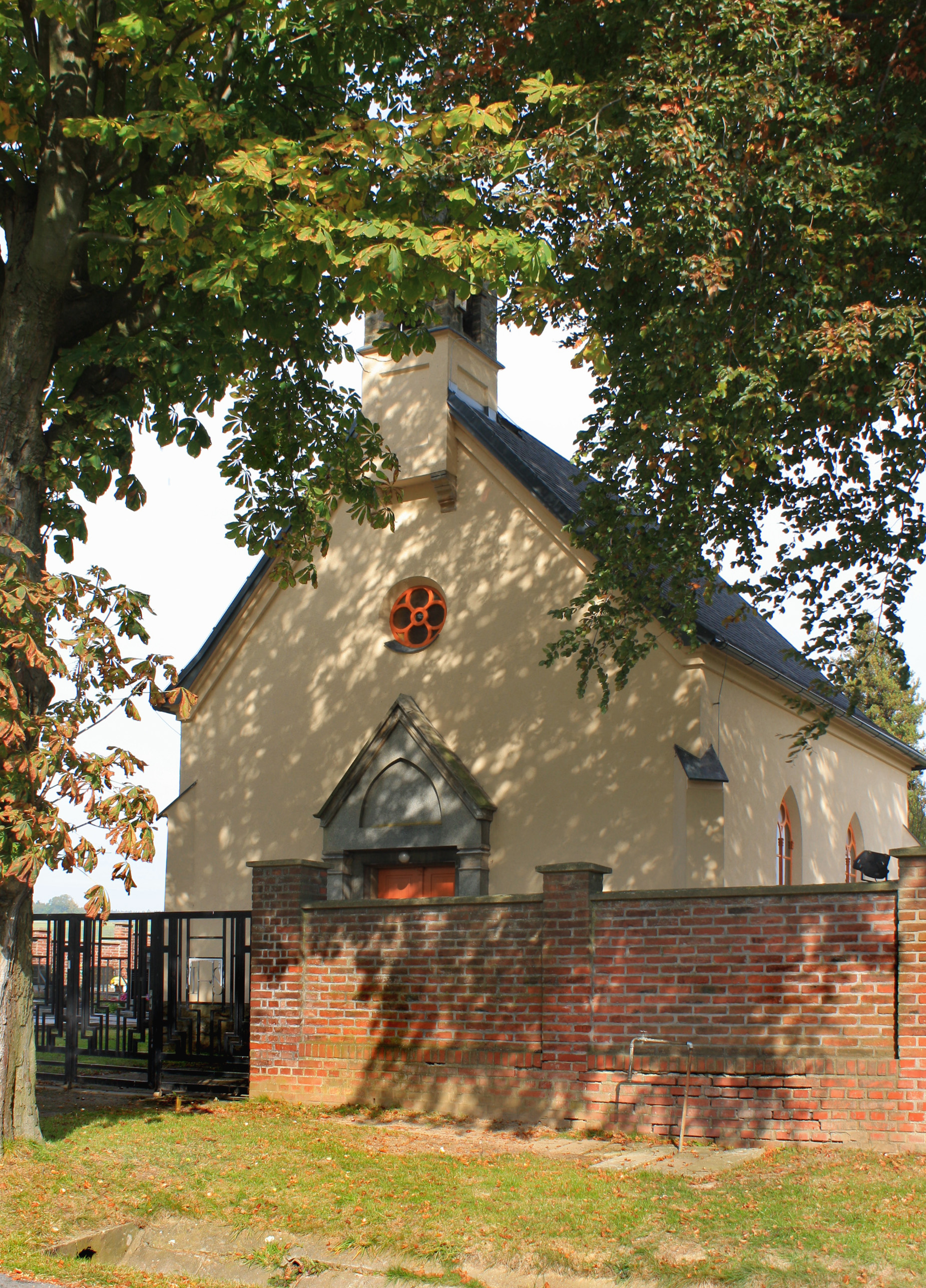 Chapel in Velká Skrovnice, Czech Republic